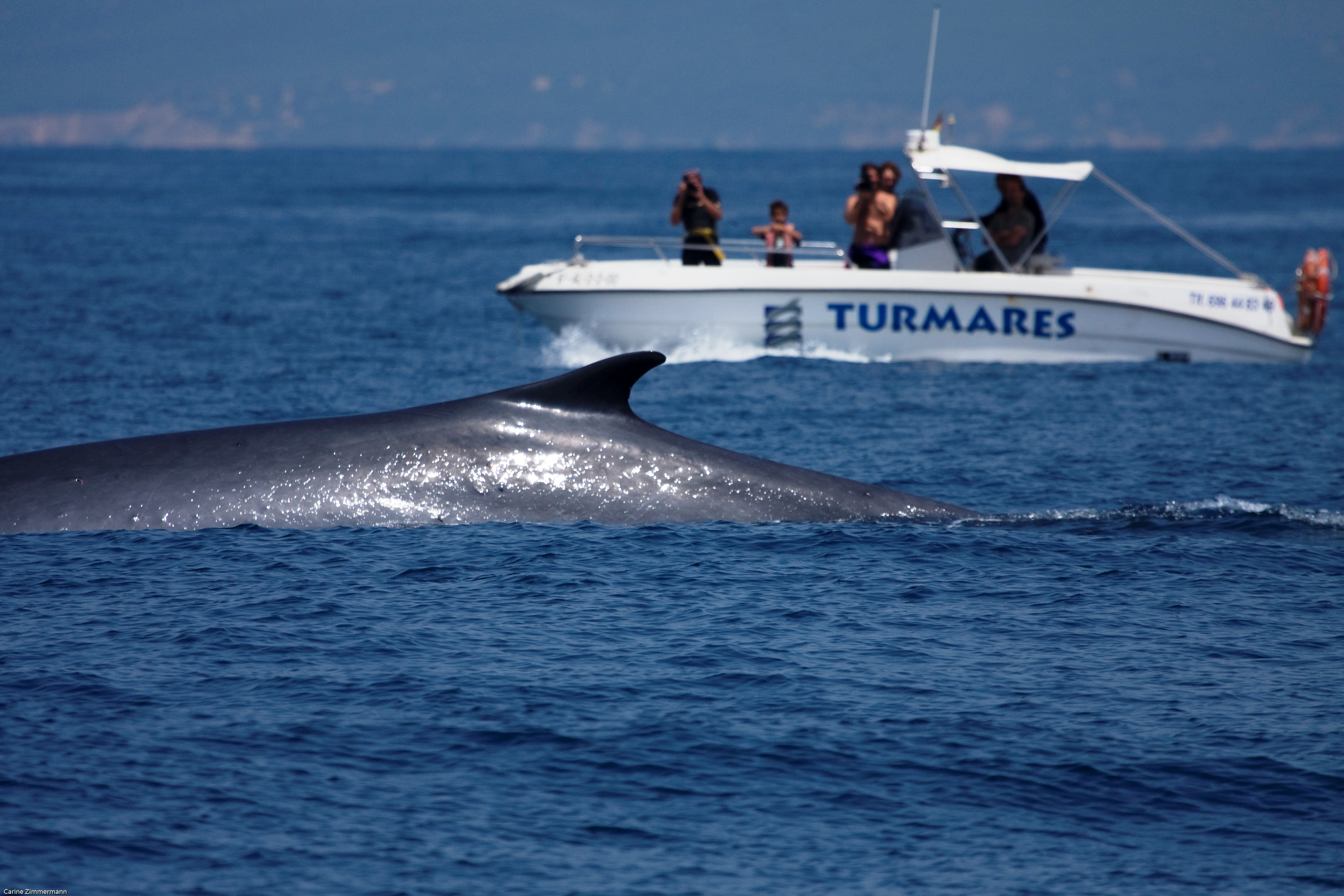 Avistamiento de ballenas y delfines en el estrecho de Gibraltar, Tarifa